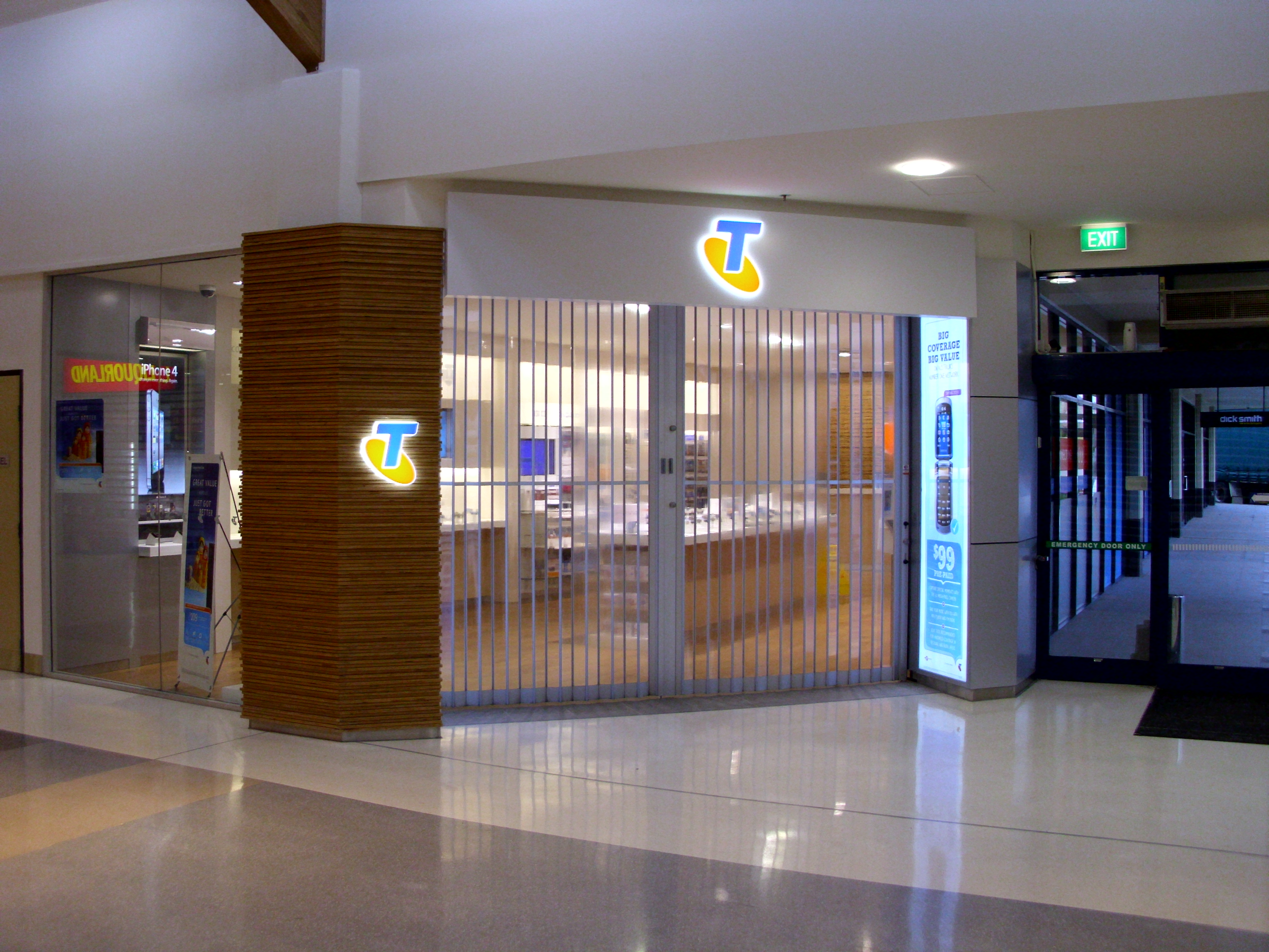 Telstra Store in the Sturt Mall in Wagga Wagga, New South Wales, Australia.